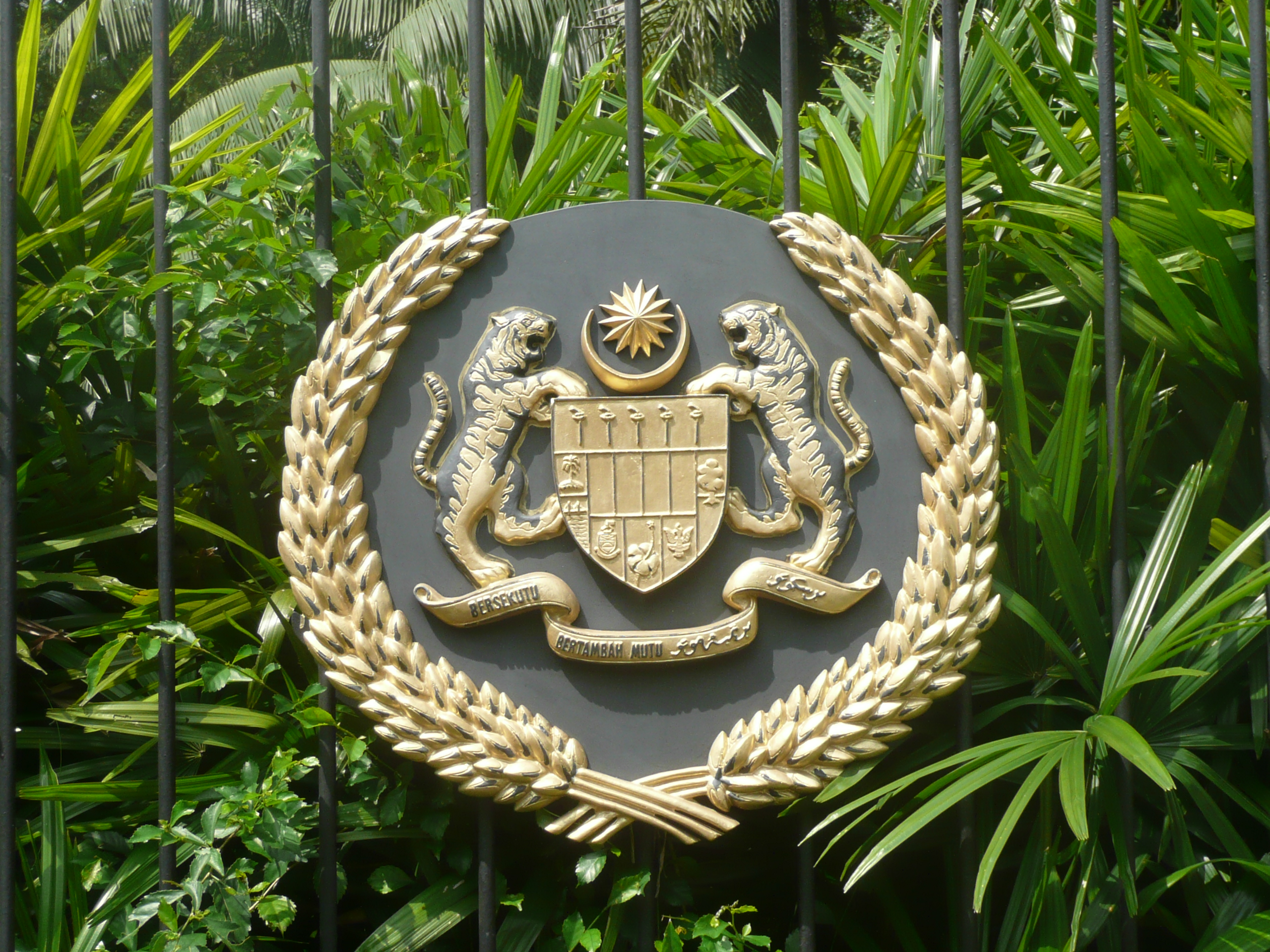 Malay coat of arms at the fence of the Istana Negara, Kuala Lumpur.